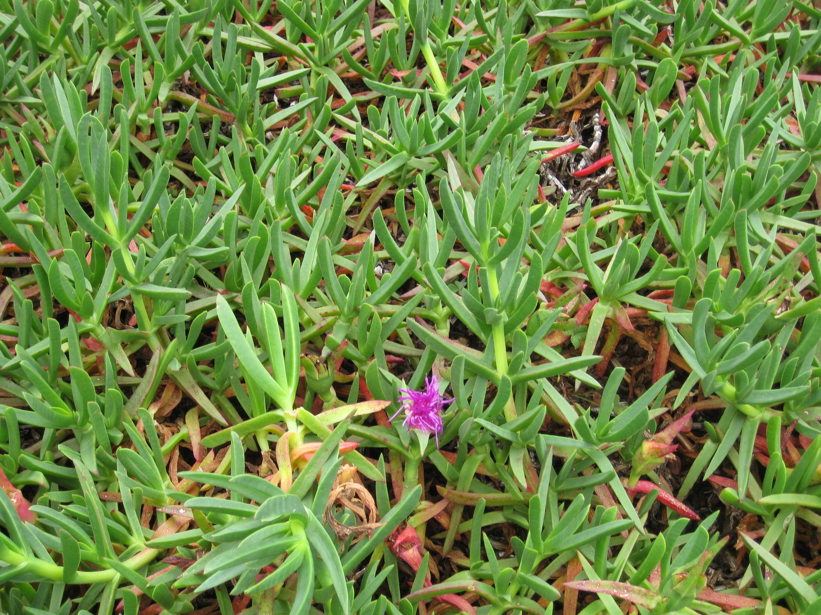 Photographed at the Royal Botanic Gardens Sydney (Australia) in January